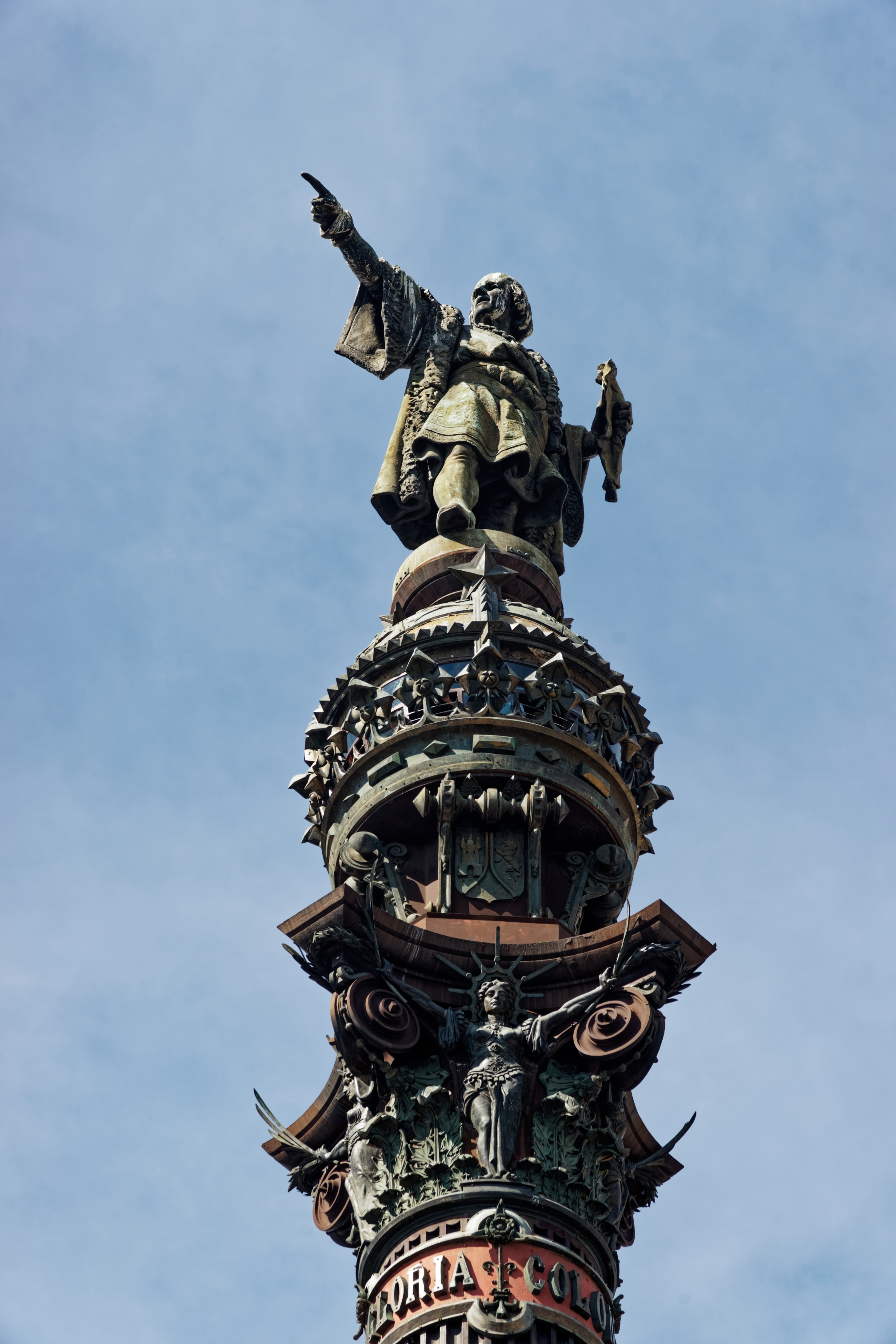 Barcelona - Plaça Portal de la Pau - View West on Columbus Statue 1888